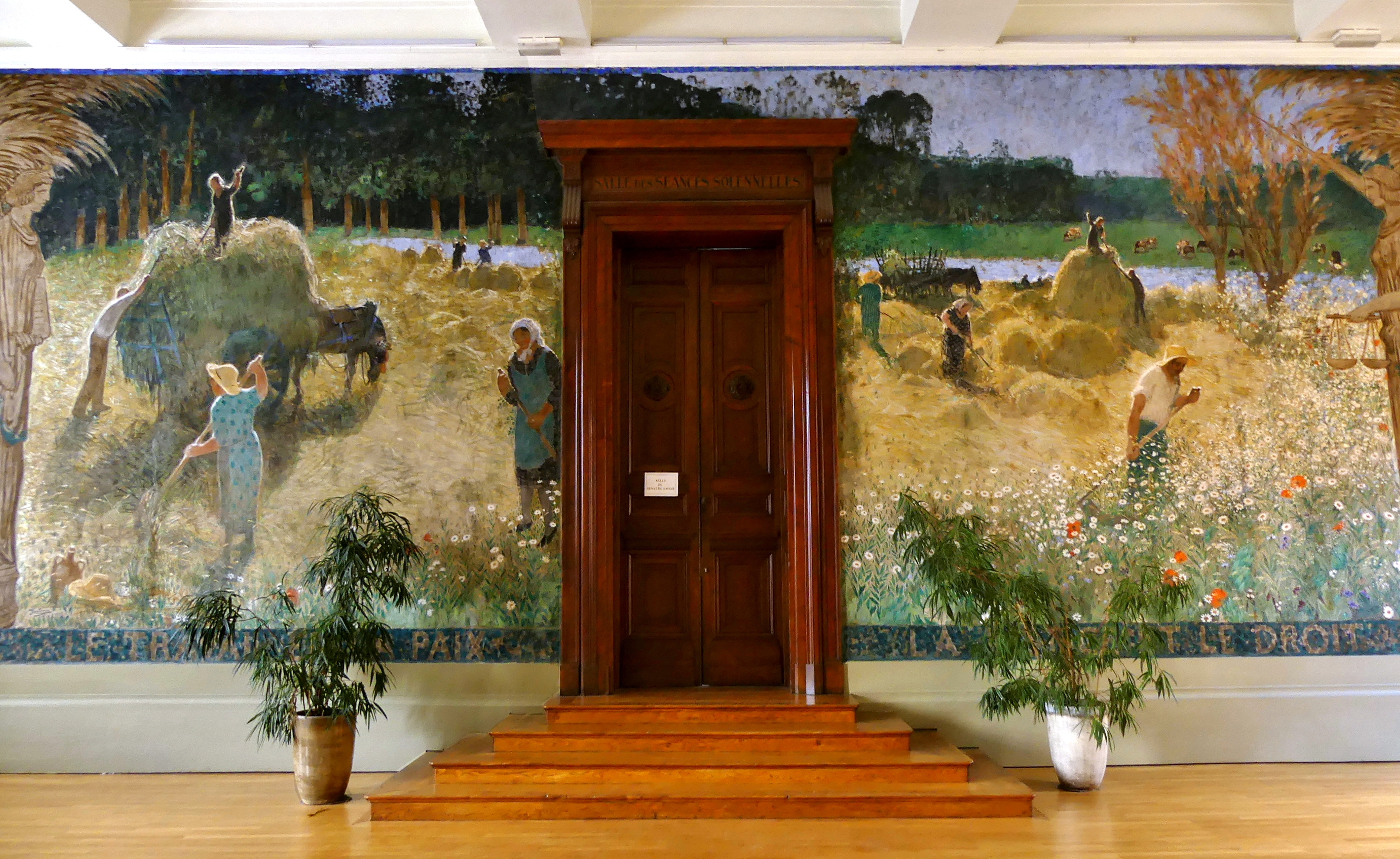 Sight of the wide fresco from Pierre Montézin (1939), in the Salle des pas perdus room of Chambéry courthouse, in Savoie, France.